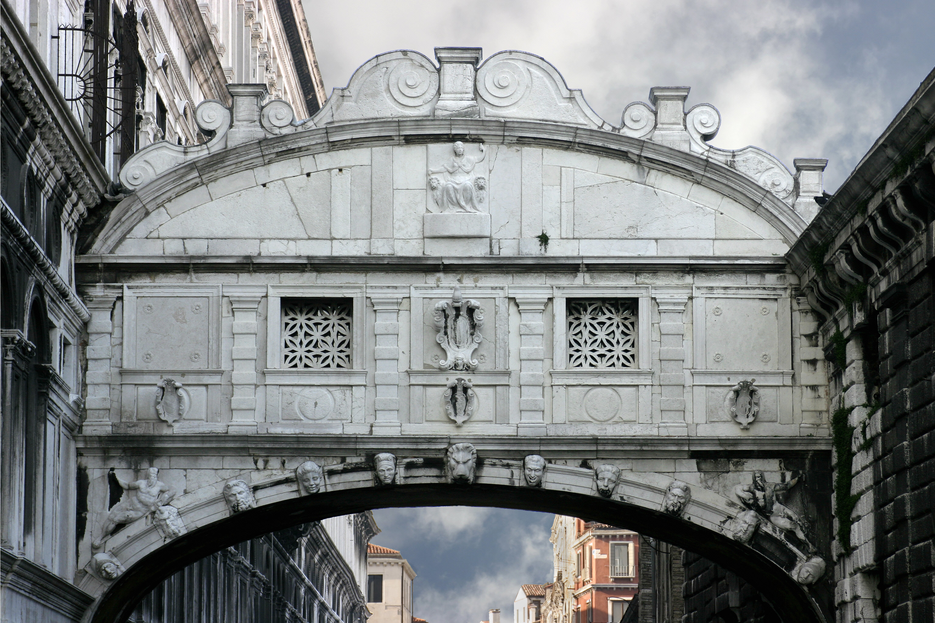 Venice – Bridge of Sighs